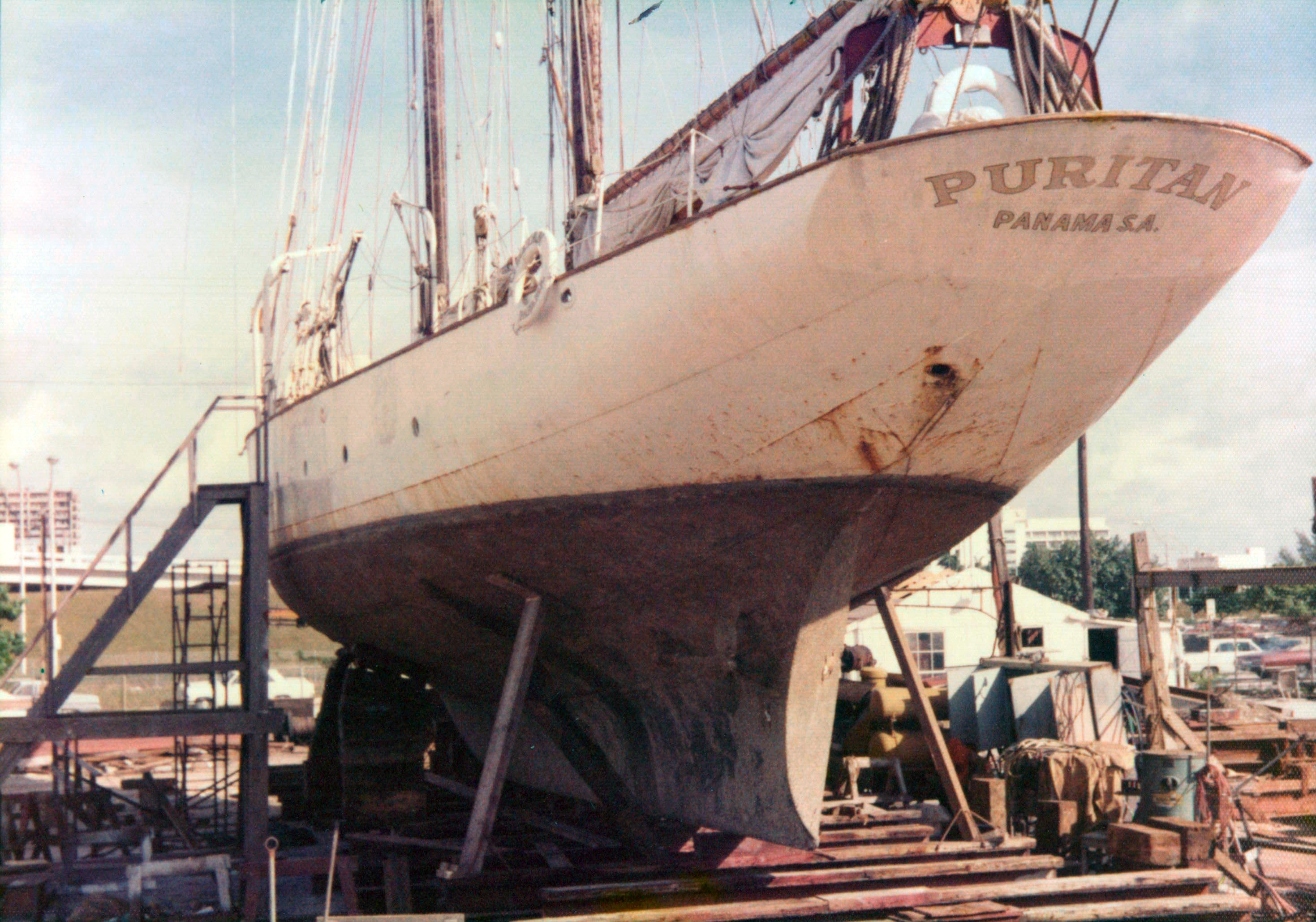 Puritan in December 1972 when Patsy and Bill Bolling bought her and prior to full restoration.